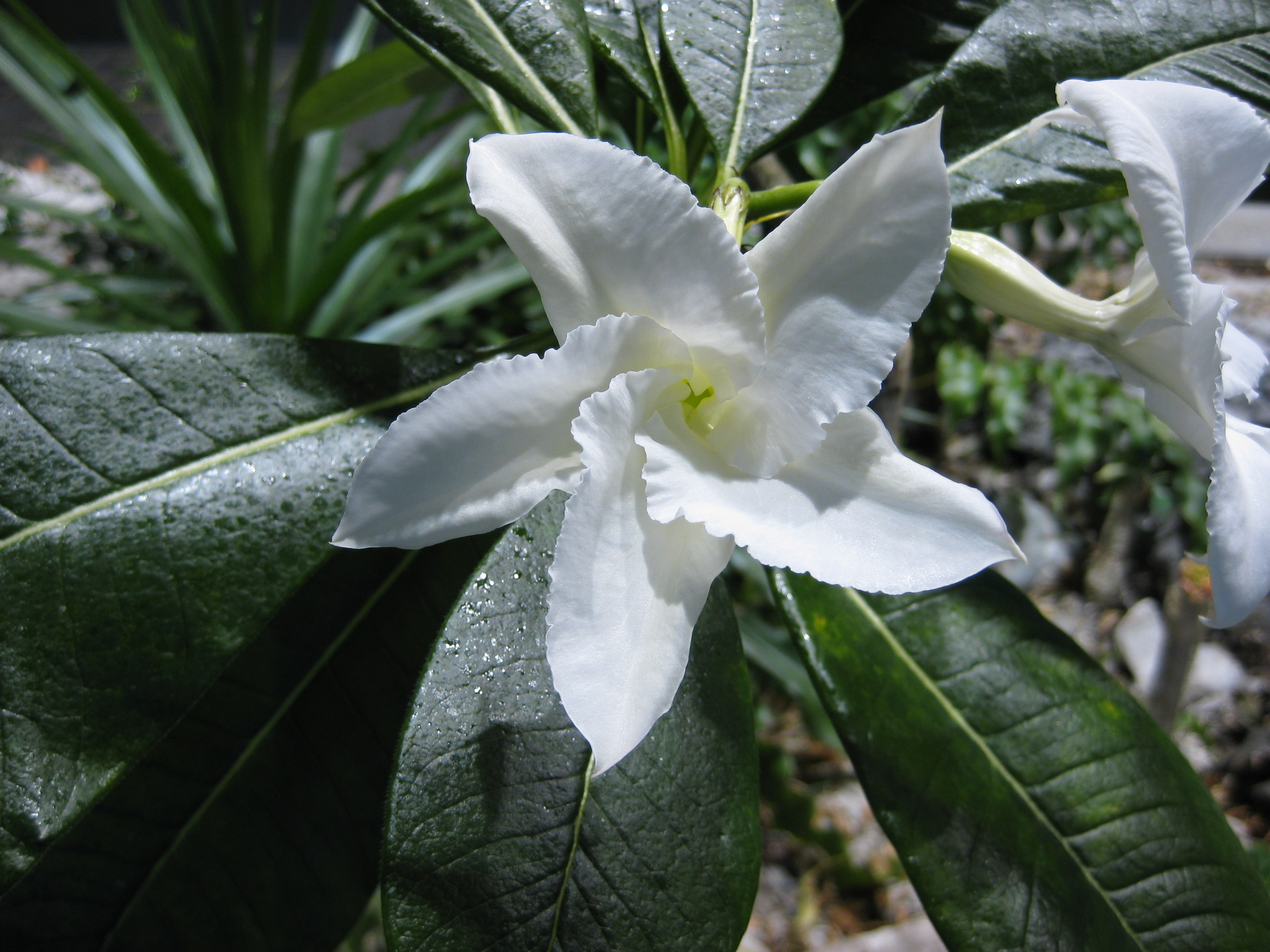 A close up photo of a flower of pachypodium lamerei